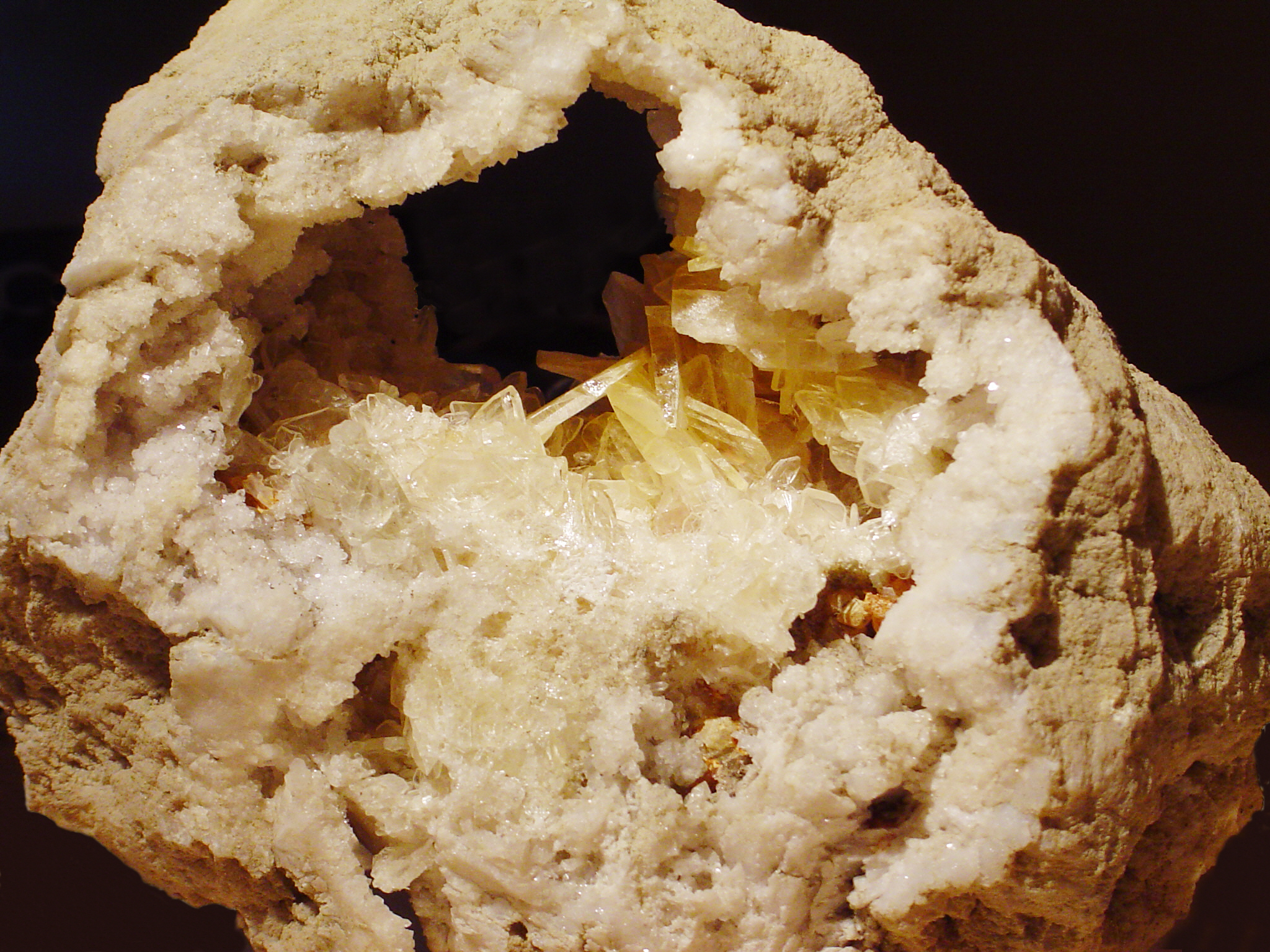 These mineral images are free to use how you wish.